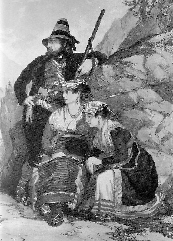 The Brigand Family - Sonina - by Thomas Allom